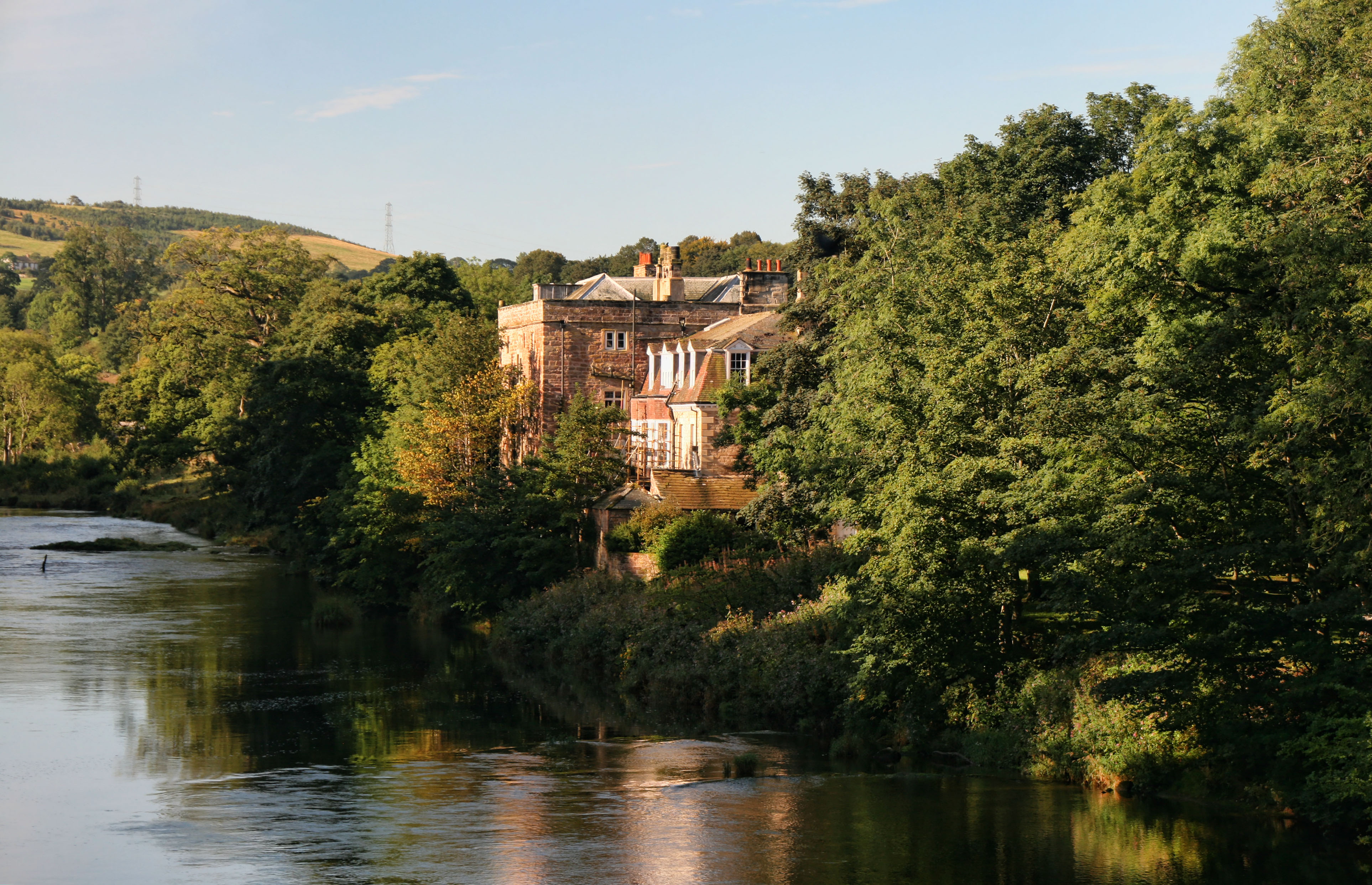 Armathwaite Castle. View from Armathwaite Bridge looking up the River Eden to Armathwaite Castle.